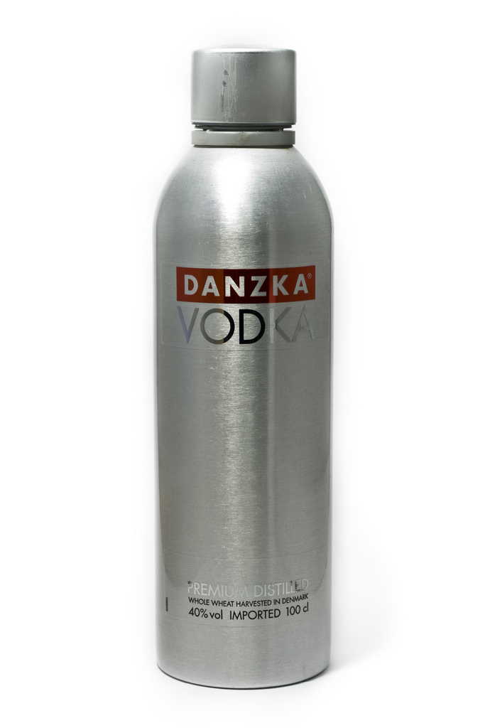 The famous Danzka Vodka from Denmark.